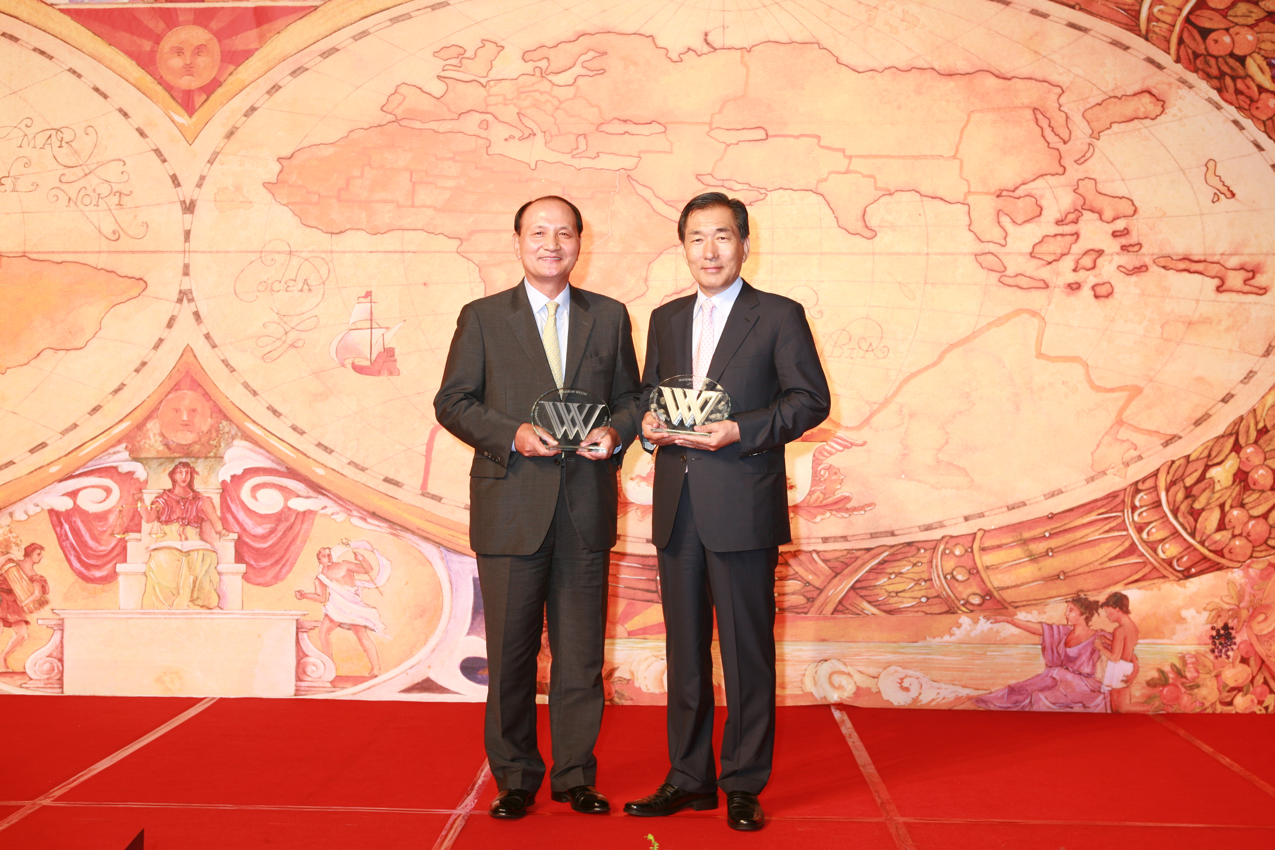 Yong Nam and Ahn Sang-soo accept their Wilson Awards